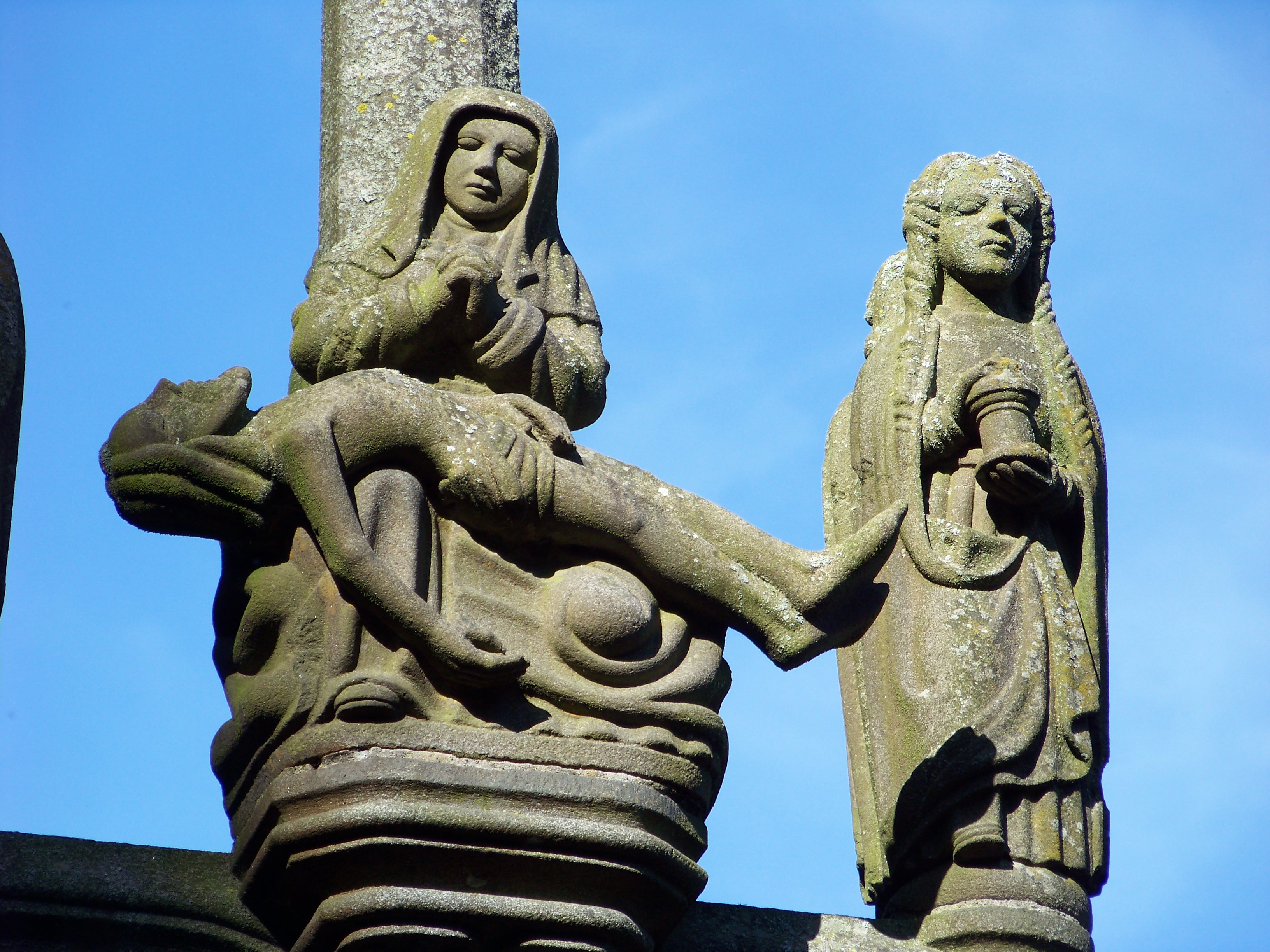 Deposition of Christ, The calvary, Plougastell Daoulaz, Finistere, Brittany .